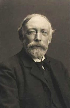 Danish architect and professor Hermann Baagøe Storck (1839-1922)